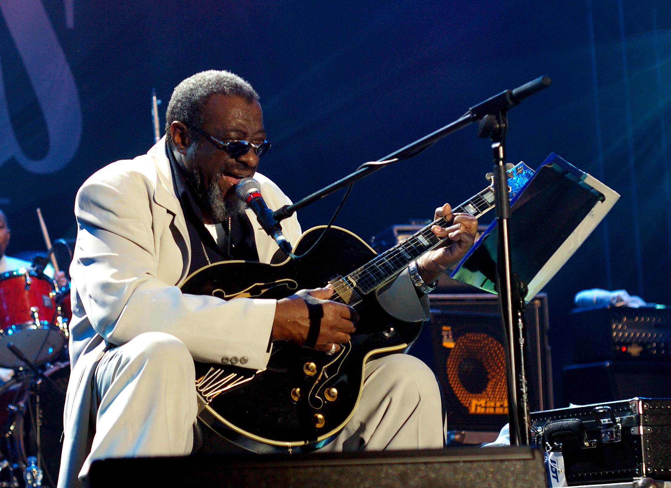 Taking of this photo was in cooperation with Rawa Blues (homepage) James Blood Ulmer's Memphis Blood feat Vernon Reid podczas 30 Festiwalu Rawa Blues 2010 09.10.2010 Katowice Spodek